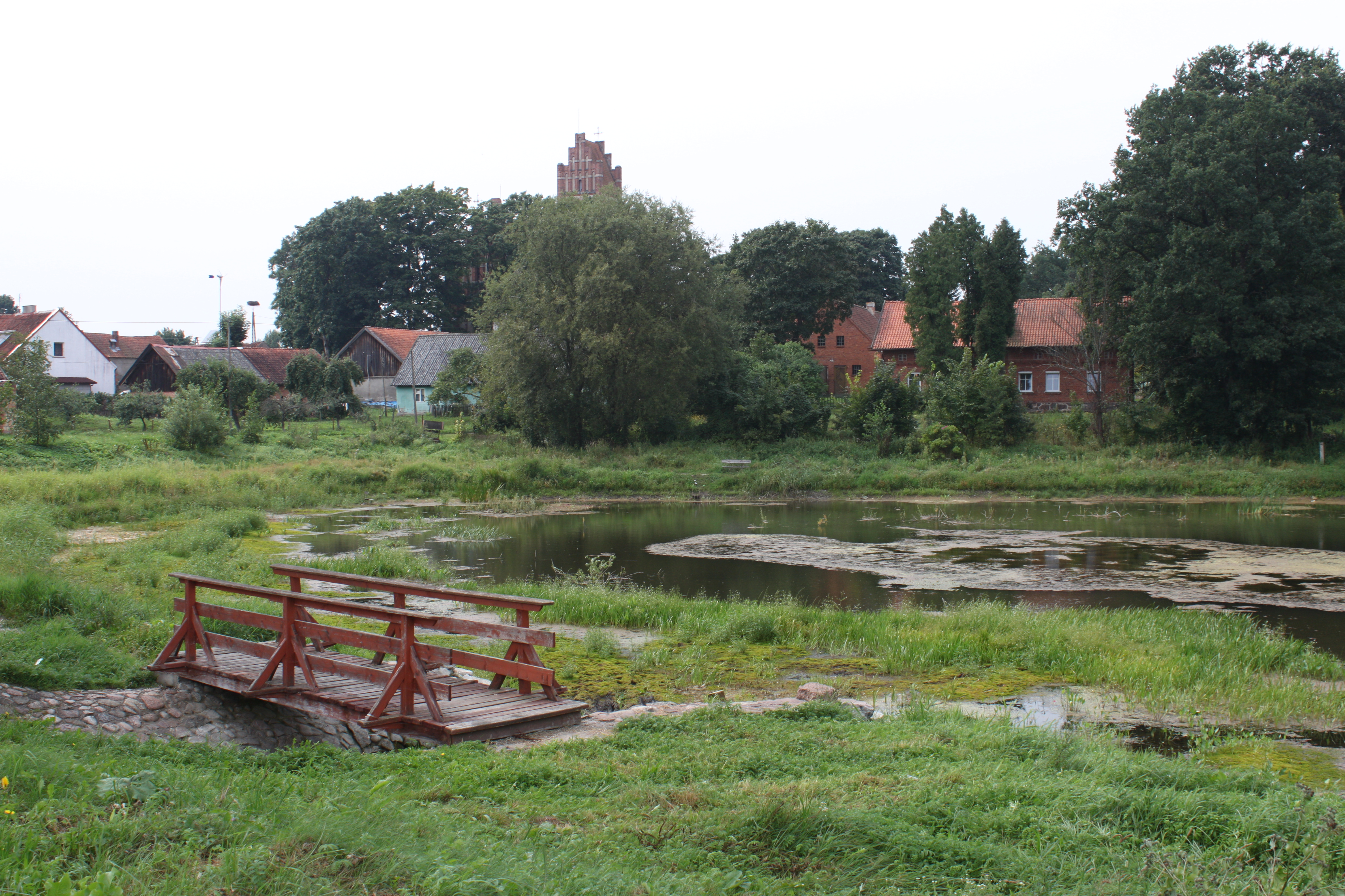 Pond in Kobułty.